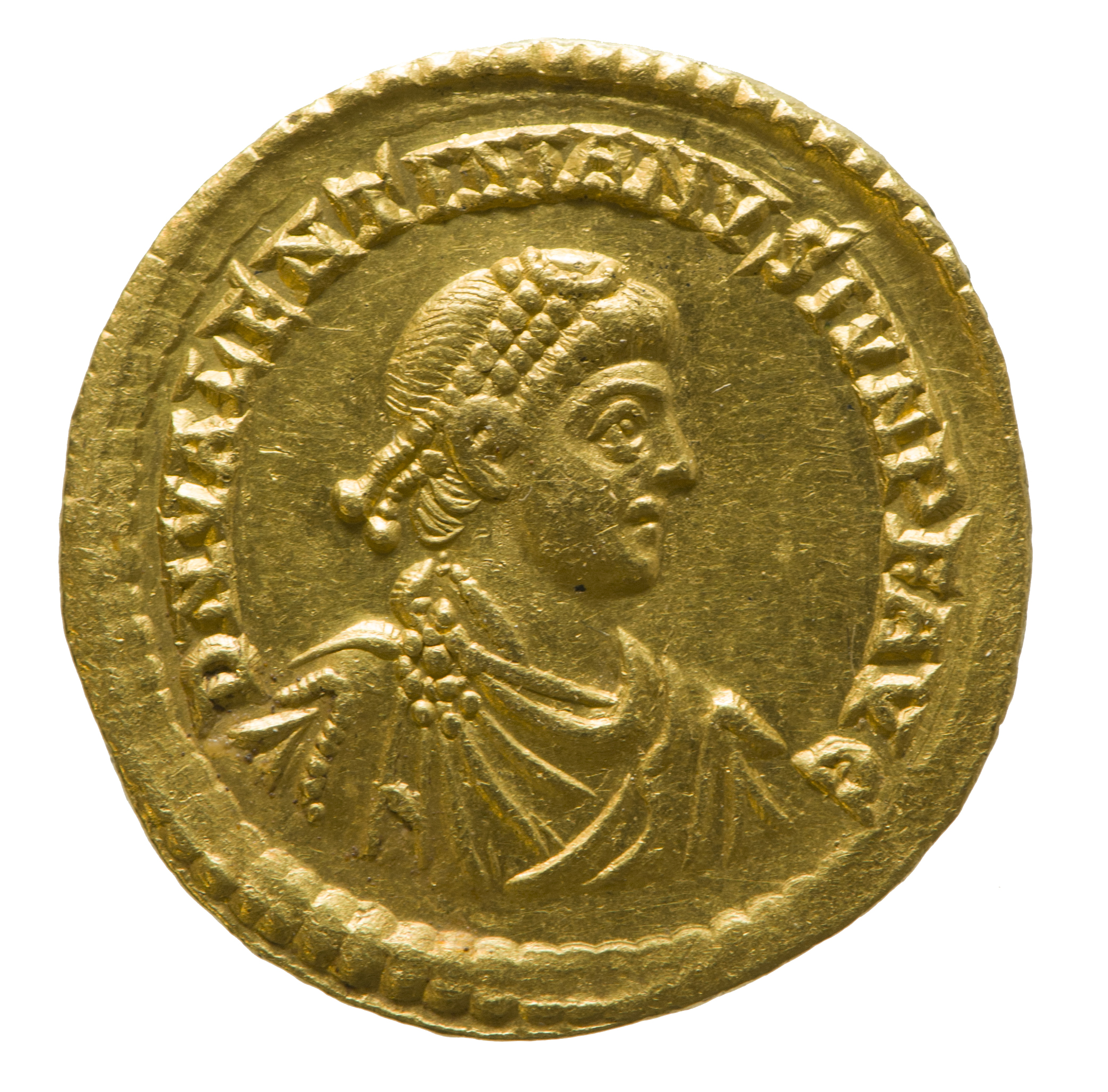 Obverse (front) of a solidus of Valentinian II Bust facing right draped, pearl diadem